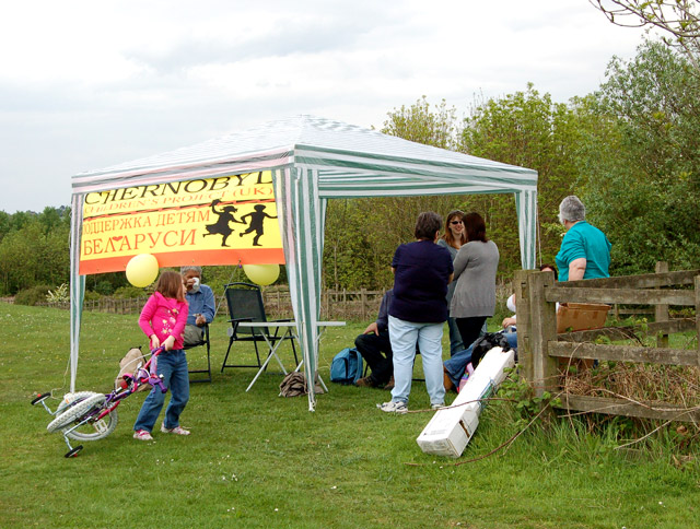 Draycote Water - charity fundraising booth A fundraising stall run at Draycote water by the Chernobyl Children's Project UK. The charity raises money to provide recuperative holidays in the UK for children from Belarus who were affected by contamination from the Chernobyl nuclear power plant accident.